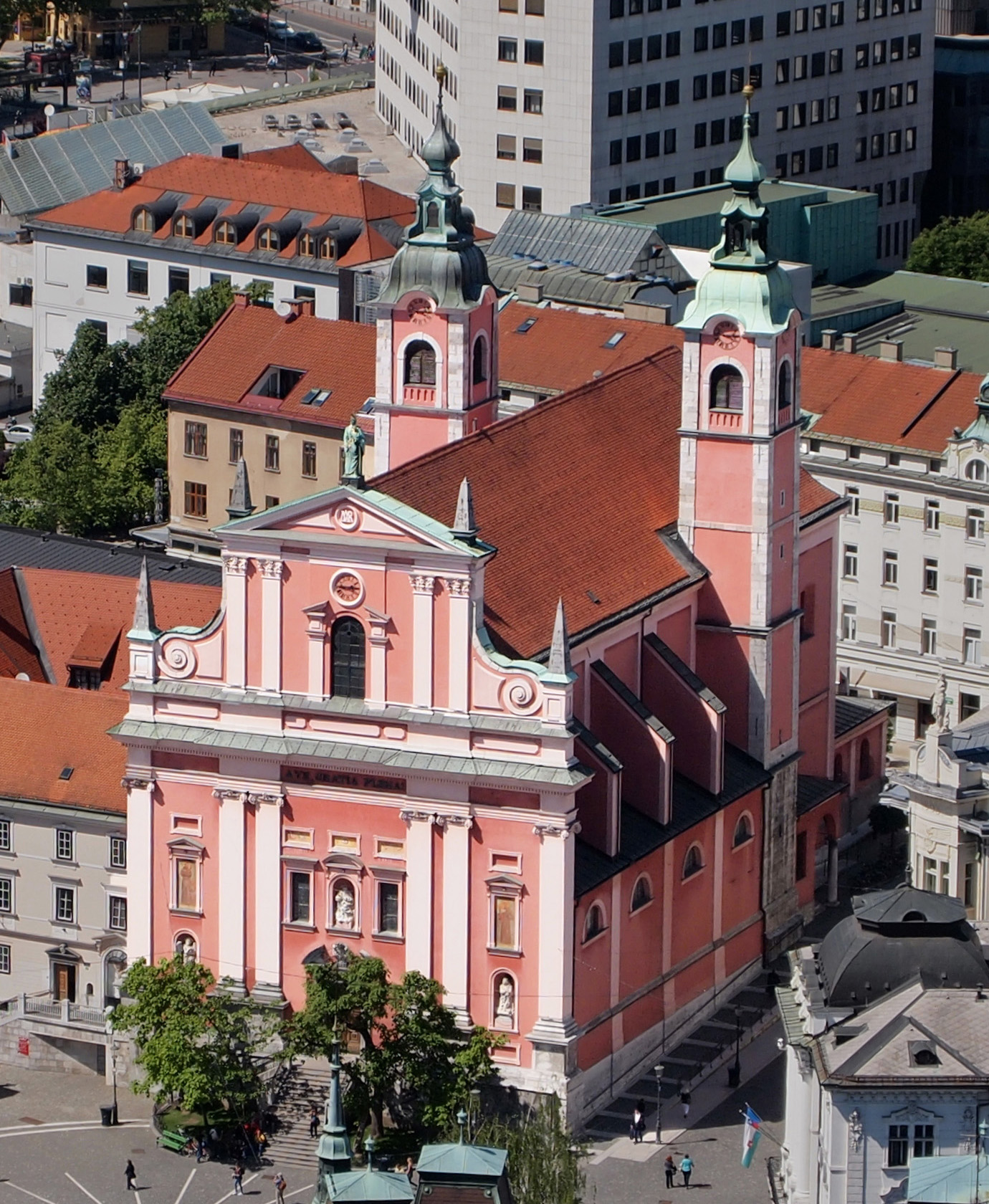 Annunciation Church in Ljubljana. This photograph was taken with a Olympus E-PL1.